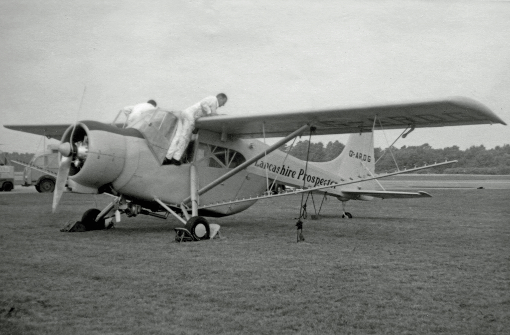 Lancashire Aircraft Prospector Mark 2 G-ARDG dispalyed at the 1960 Farnborough Air Show